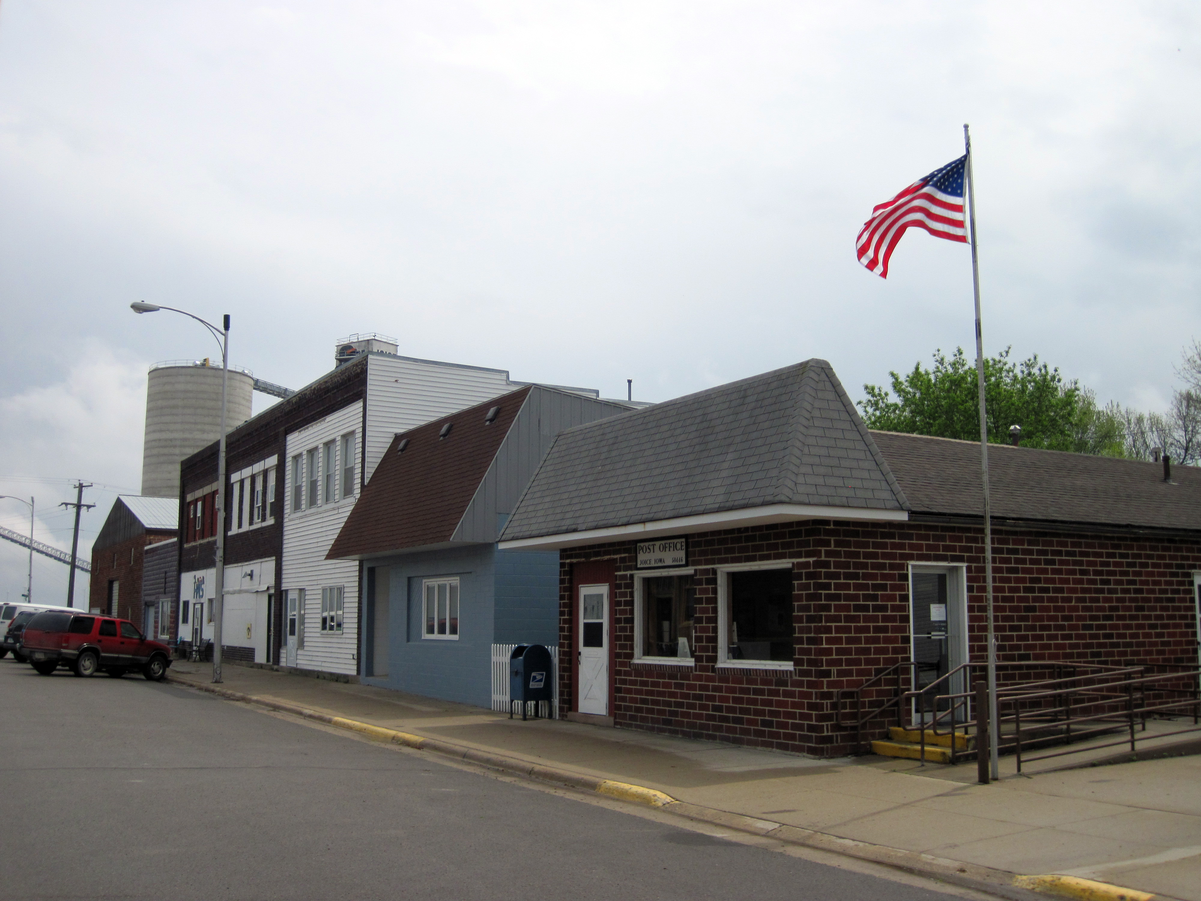 Joice